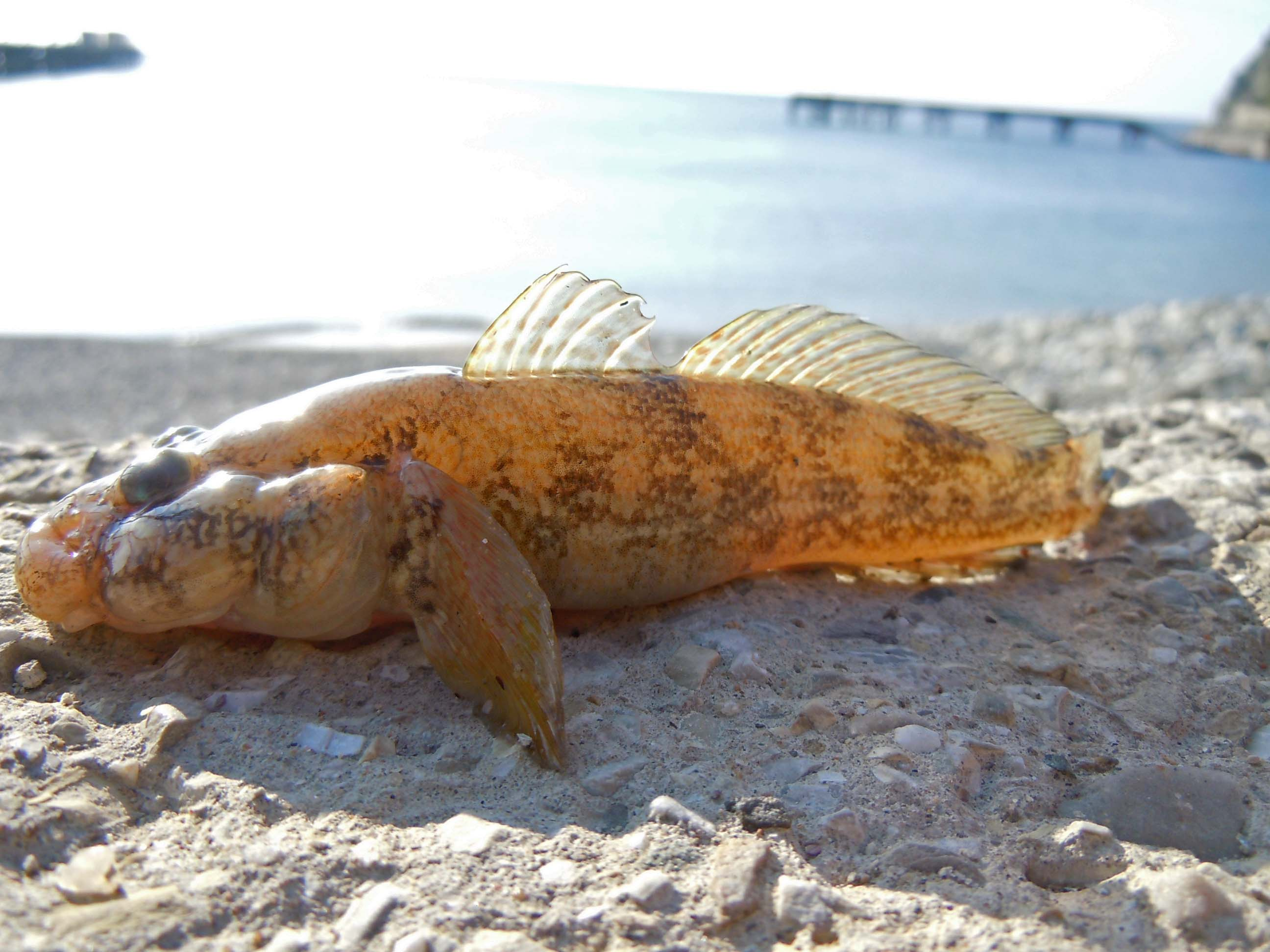 Flatsnout goby (Ponticola platyrostris) from the Black Sea near Gelendzhik, Caucasus